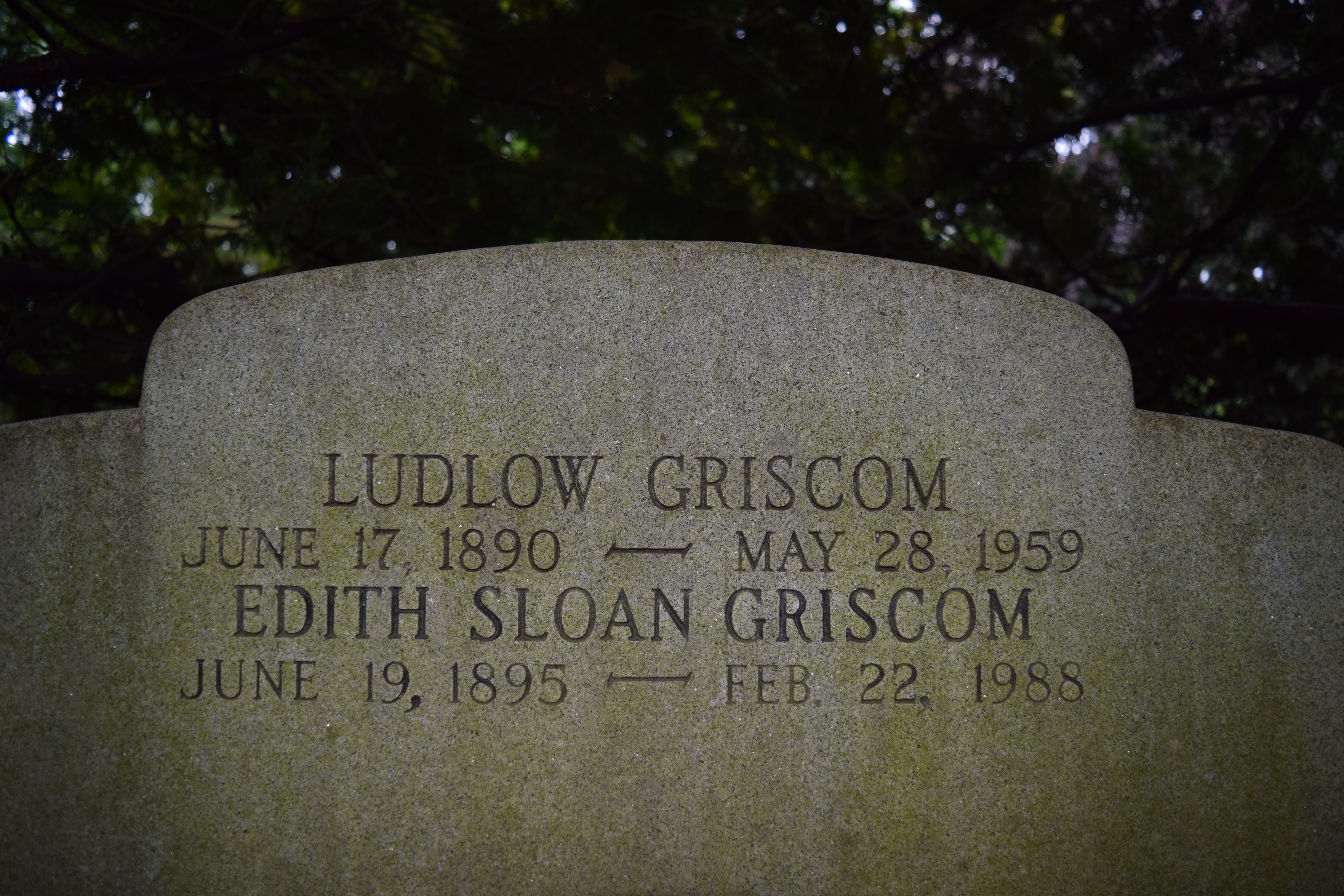 Griscom family grave marker, reverse. "Ludlow Griscom/June 17, 1890--May 28, 1959/Edith Sloan Griscom/June 19, 1895--Feb. 22, 1988"